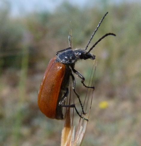 Near Tàrrega, Lleida, Catalonia.